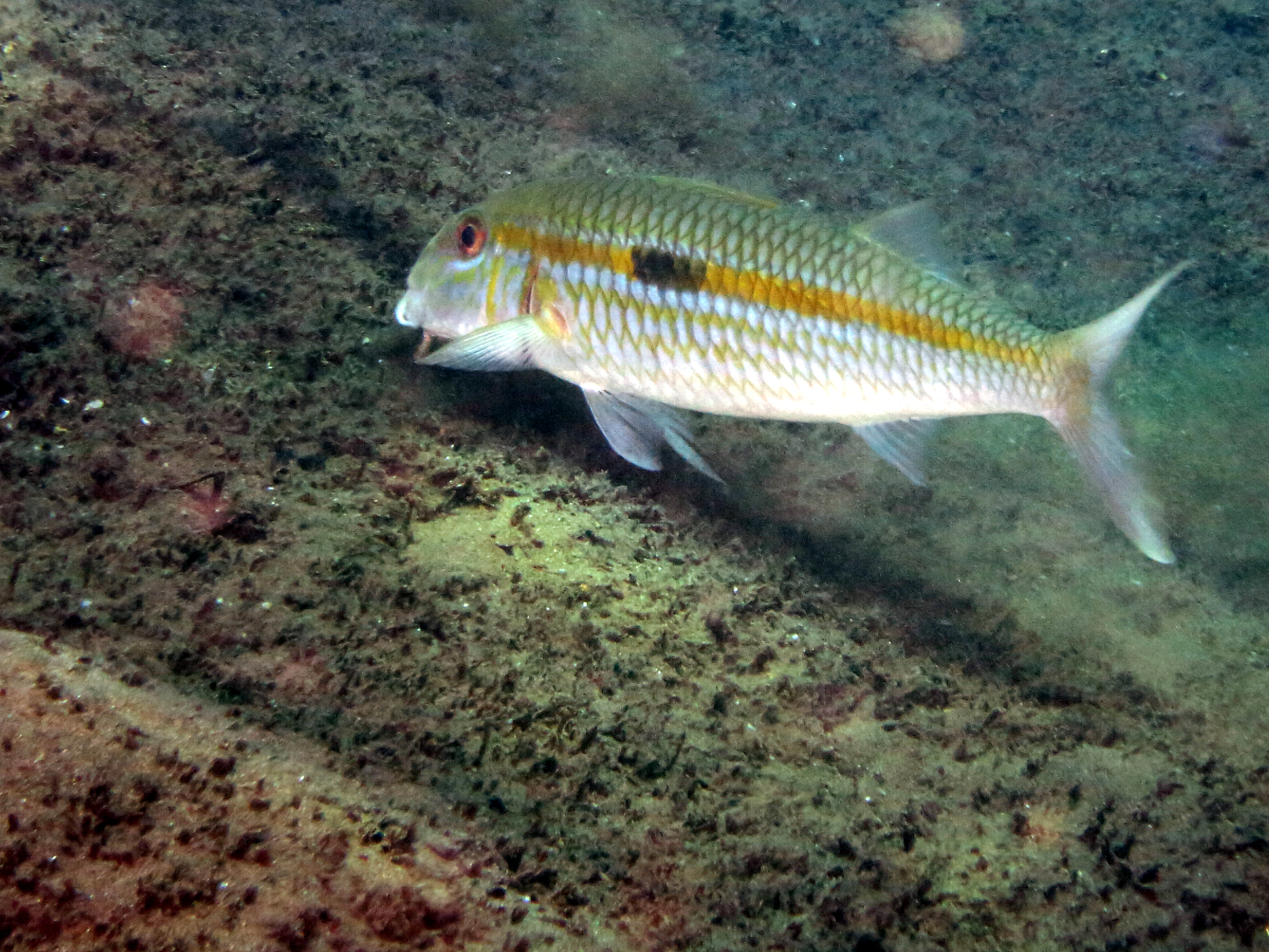 Mulloidichthys flavolineatus.